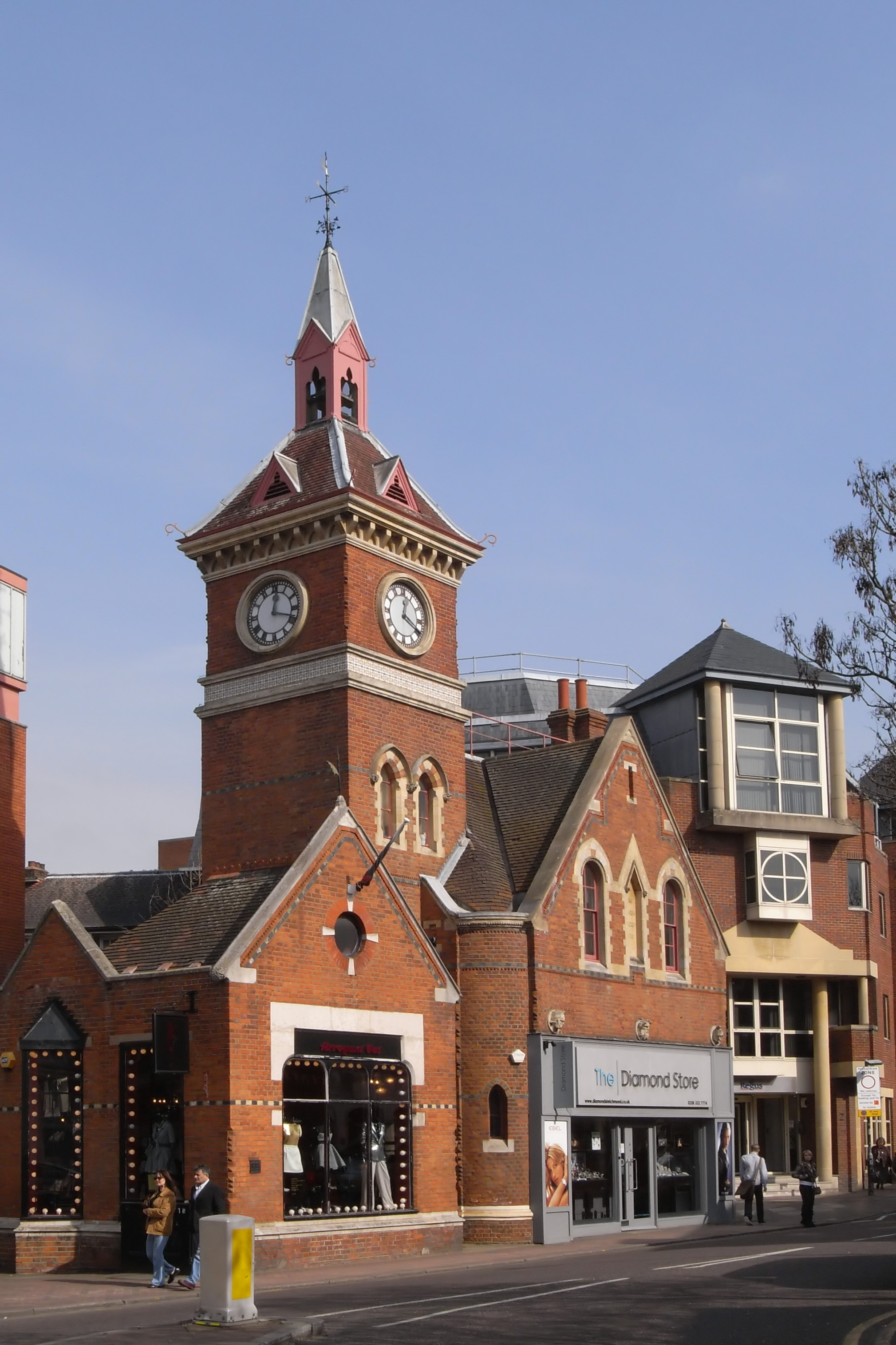 Clock tower in Richmond, London (a former fire station)